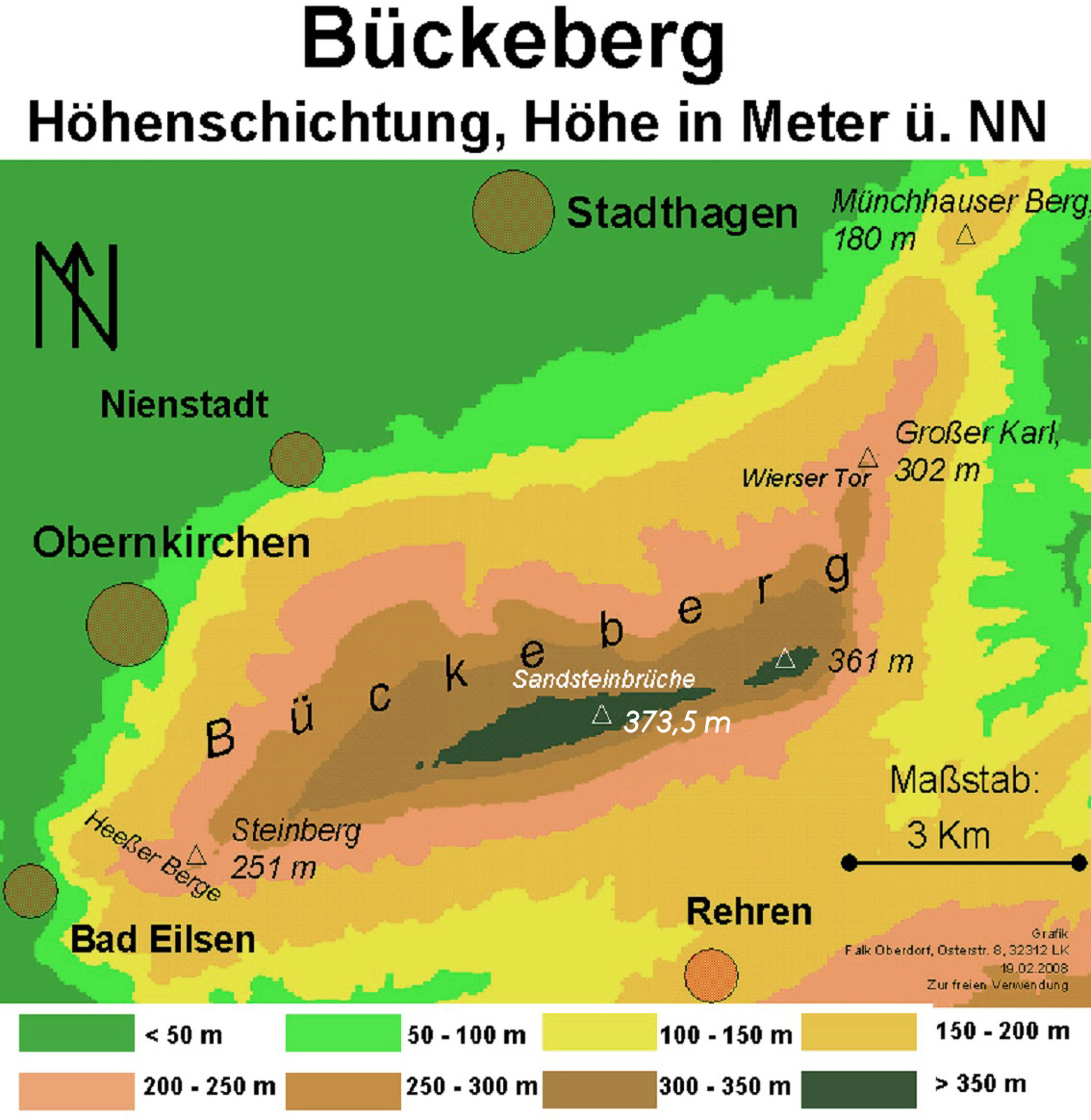 Relief map of the Bückeberg hills, Lower Saxony, Germany